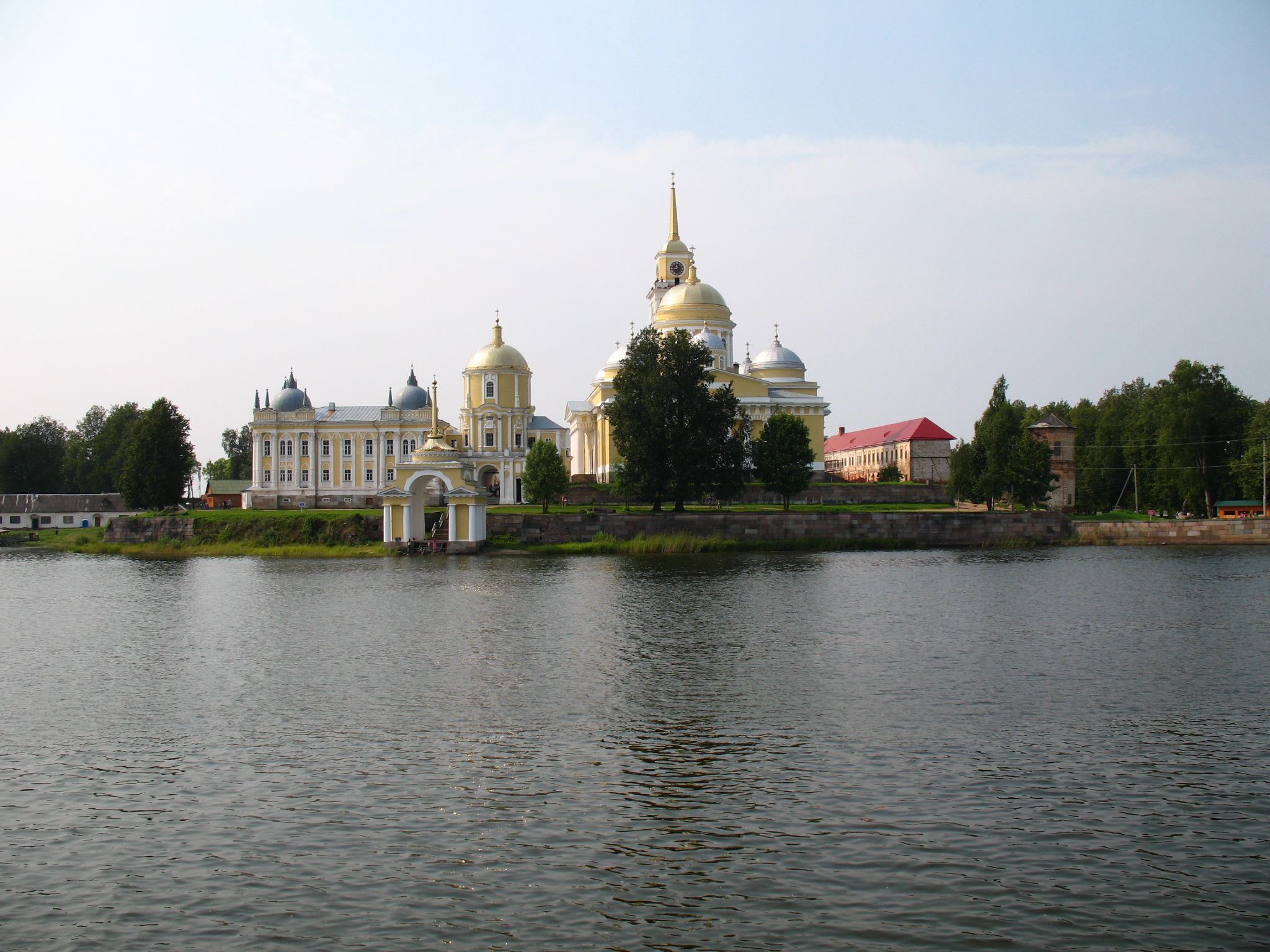 Lake Seliger, Tver region, Russia.